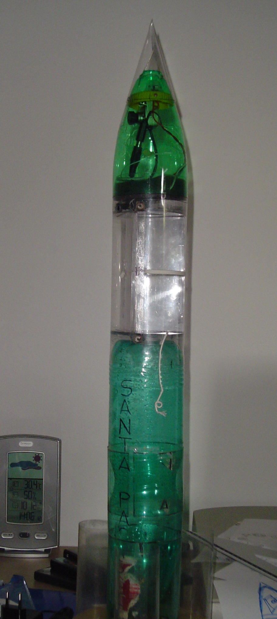 Razzo ad acqua con ogiva, pinne e telecamera a bordo